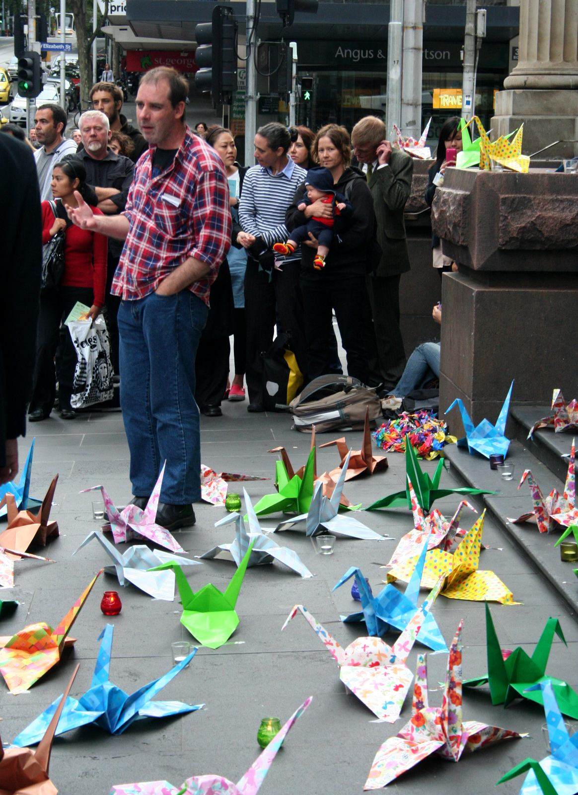 Dr Jim Green from FoE at Melbourne Vigil for Japan talking on the nuclear crisis. Melbourne Vigil forthe people of Japan suffering the effects of the Magnitude 9.0 Earthquake, Tsunamis, and an escalating nuclear crisis. The vigil was held at the old GPO in Bourke Street Mall on March 17, 2011. The candlelight vigil was to honour the victims of this terrible tragedy, and to show concern for the safety of those exposed to radioactivity from the Fukushima nuclear power plant. The vigil was organised by the Medical Association for the prevention of war, the International Campaign to Abolish nuclear Weapons, and Japanese for Peace. (original text)